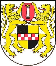 Coat of Arms of Römhild